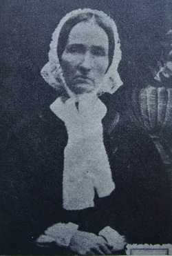 Sabina Jelenska (1820—1912) (from the Dybowski family), Antoni Jelenski (1810-1883)'s wife.